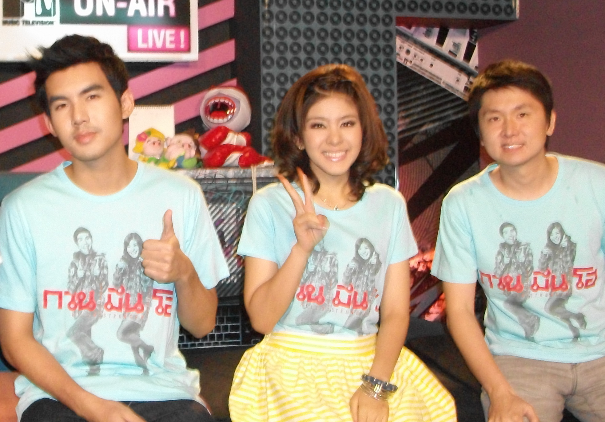 From l-r: Chantawit Thanasewee, Nuengtida Sopol and Banjong Pisanthanakun.